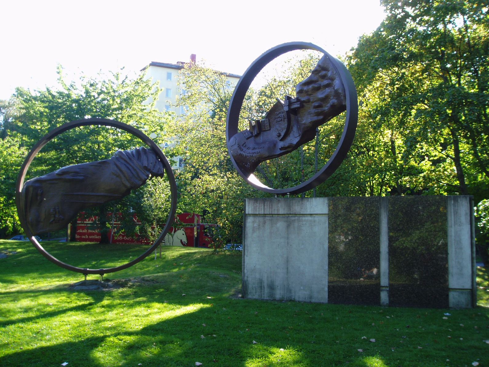 Finlandsmonumentet (the Finland Monument) by Gudrun Eduards (1935—), erected in 1986 in Finlandsparken in Stockholm, Sweden